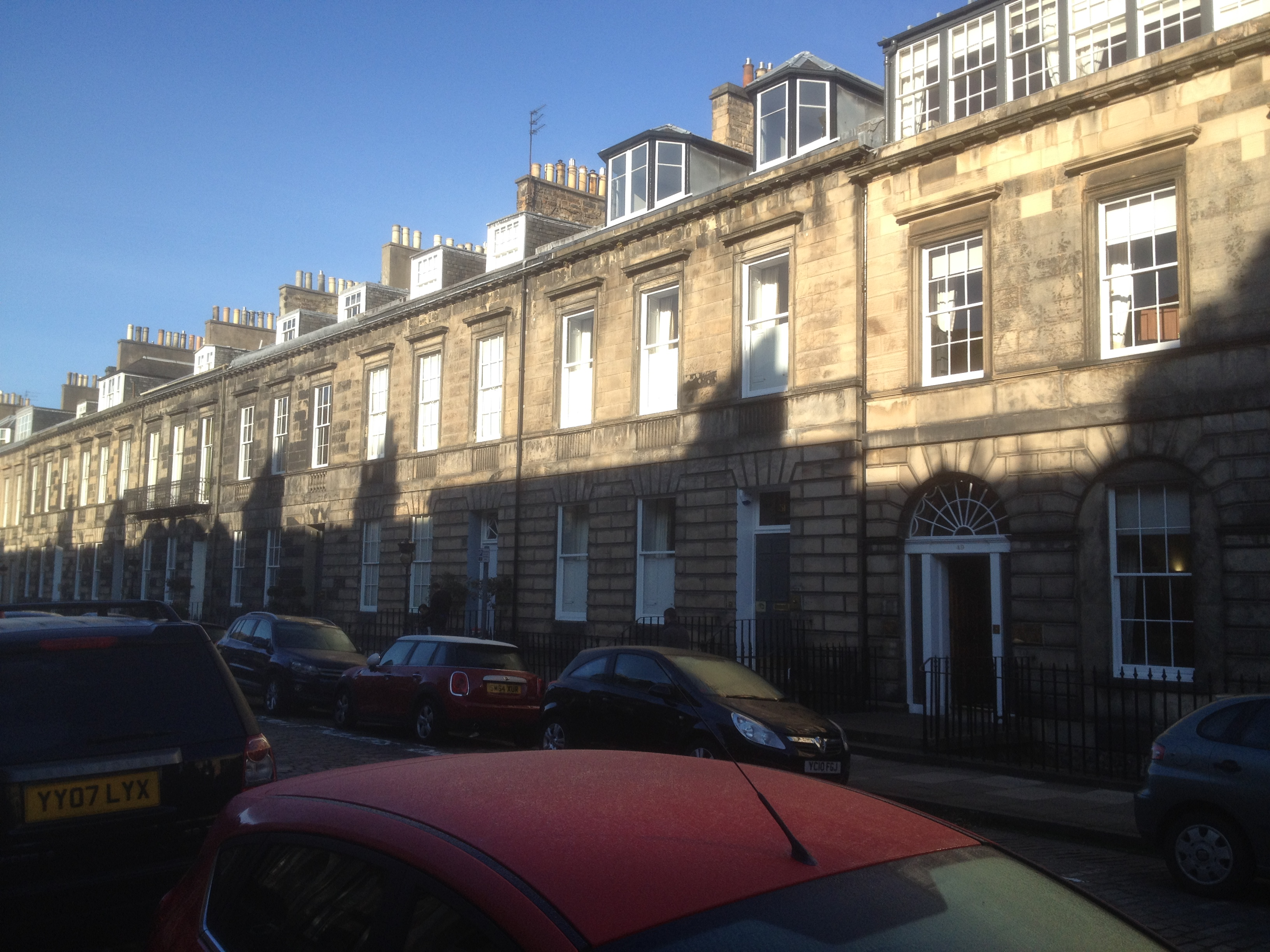 Northumberland Street 49-61, Edinburgh